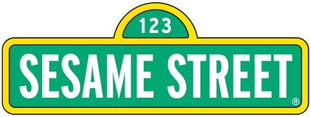 Logo for Sesame Street